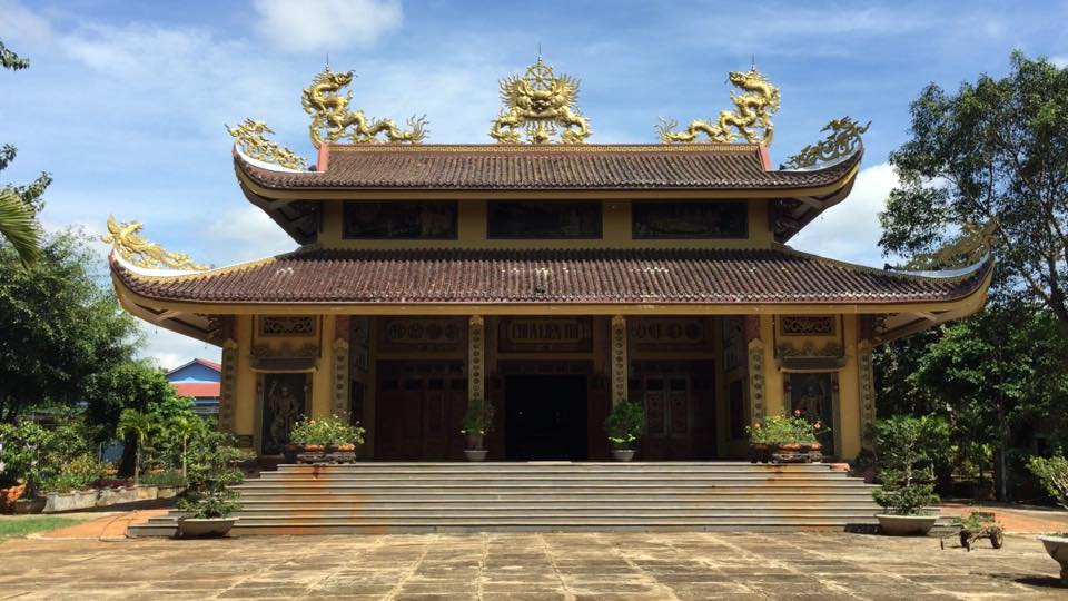 Temple